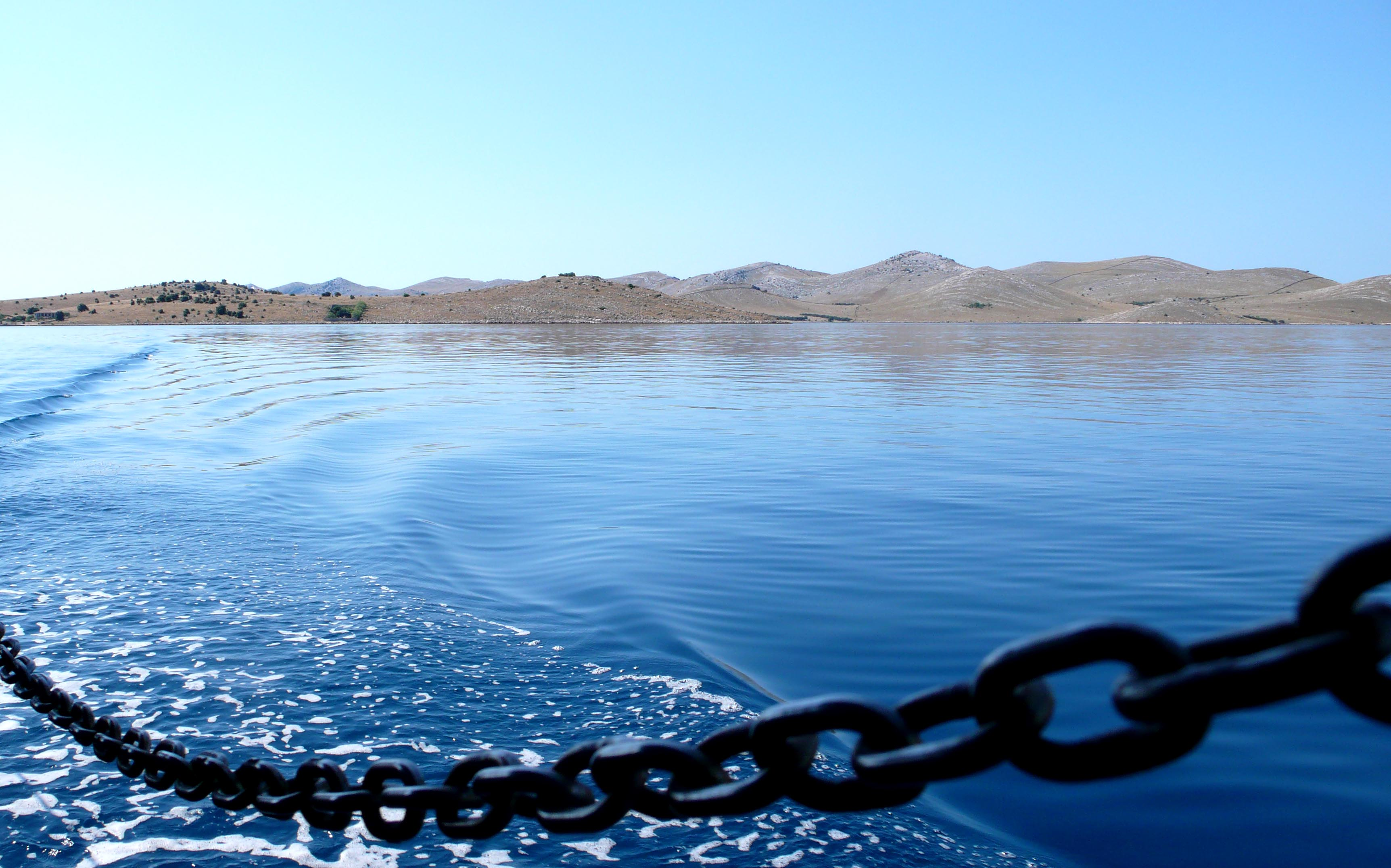 Kornati national park, Croatia